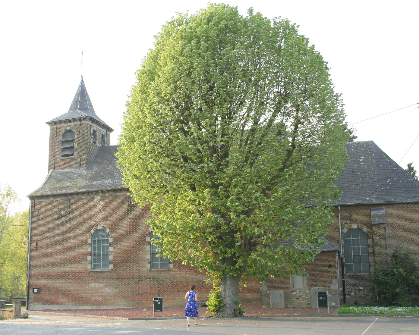 Spiennes (Belgium), the St. Amand church (1753).